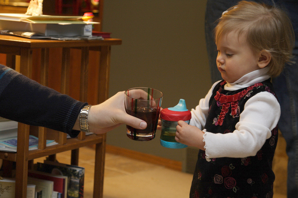 Little girls bringing her sippy cup close to a glass held by an adult in a Christmas toast.